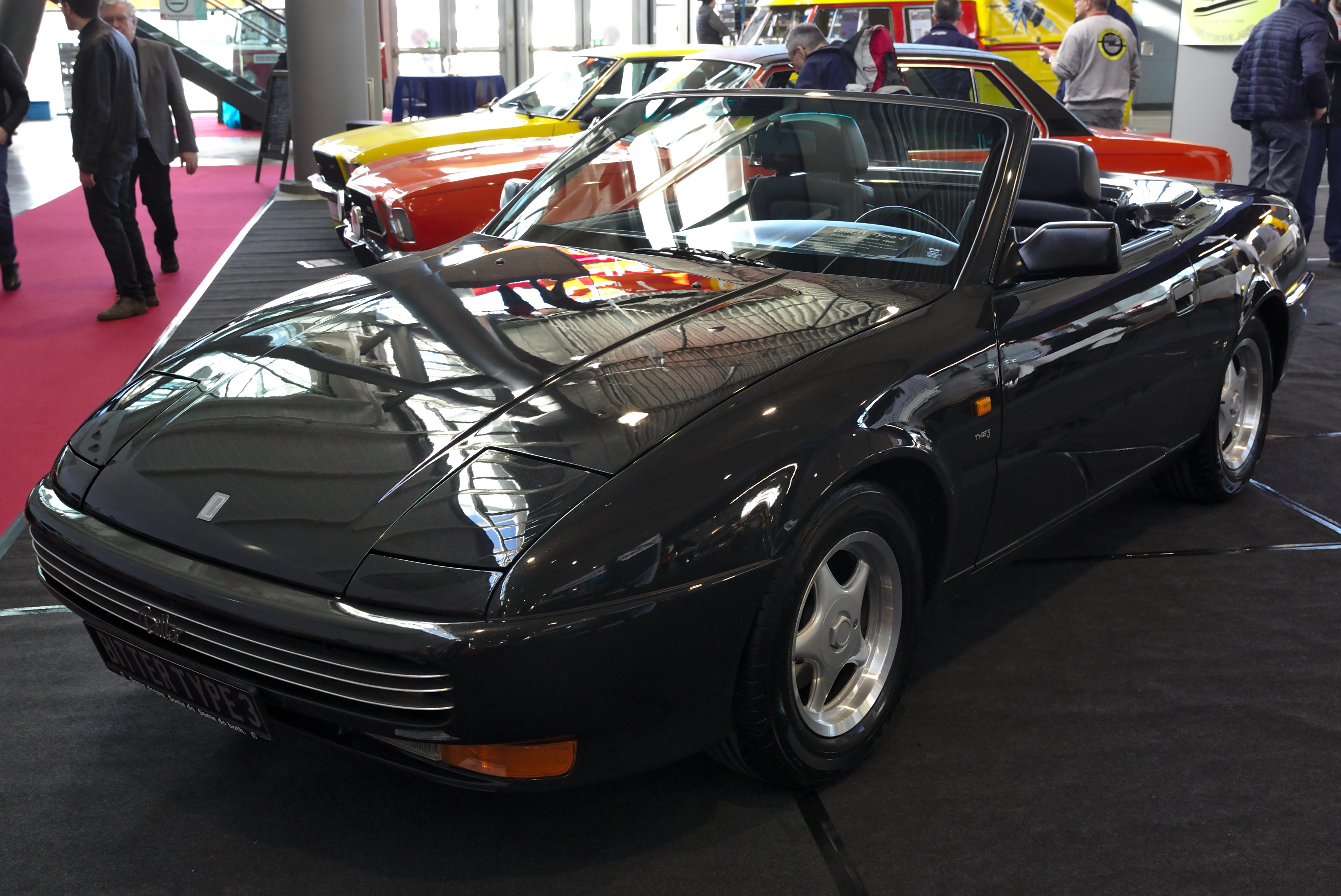 Bitter Type 3 at Retro Classics 2019